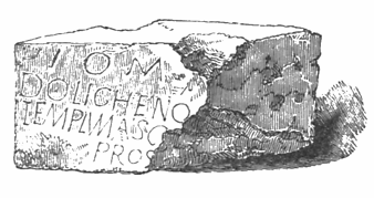 Dedication to Jupiter Optimus Maximus of Doliche, Bewcastle/Fanum Cocidi (GN), found 1852. Now lost.